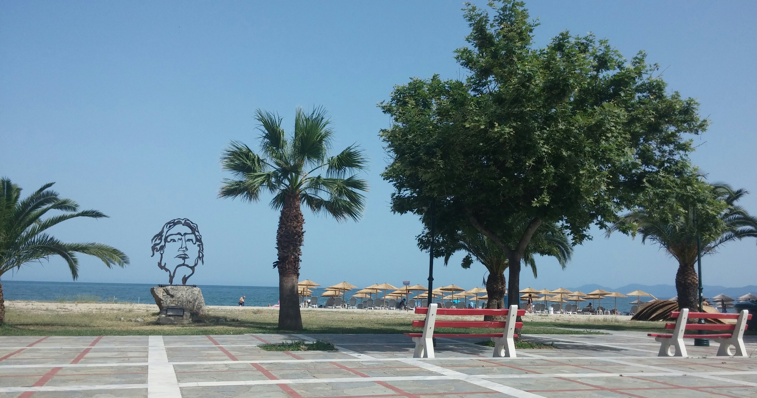 Asprovalta Promenade